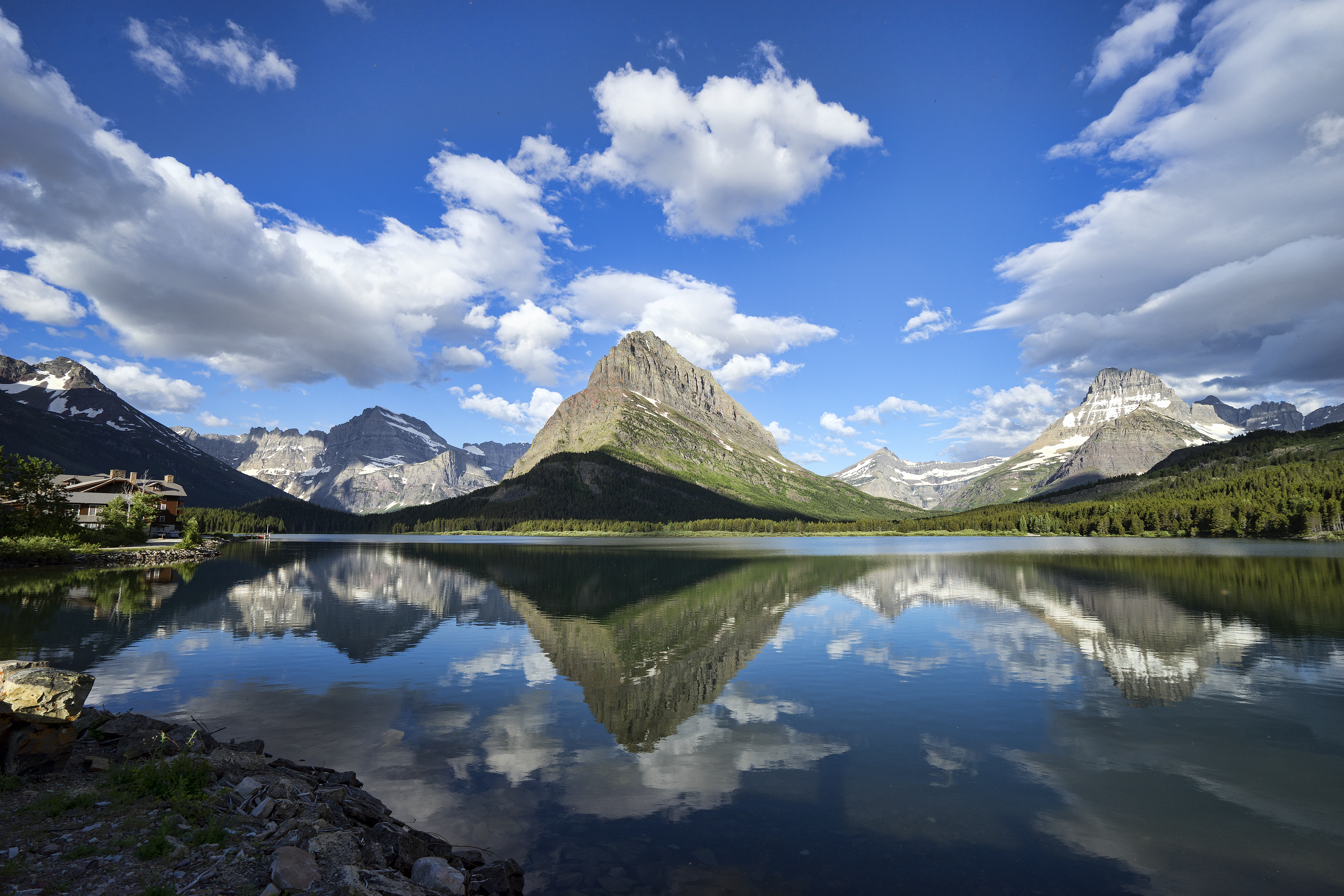 Swiftcurrent Lake at Glacier National Park by Christopher Michel